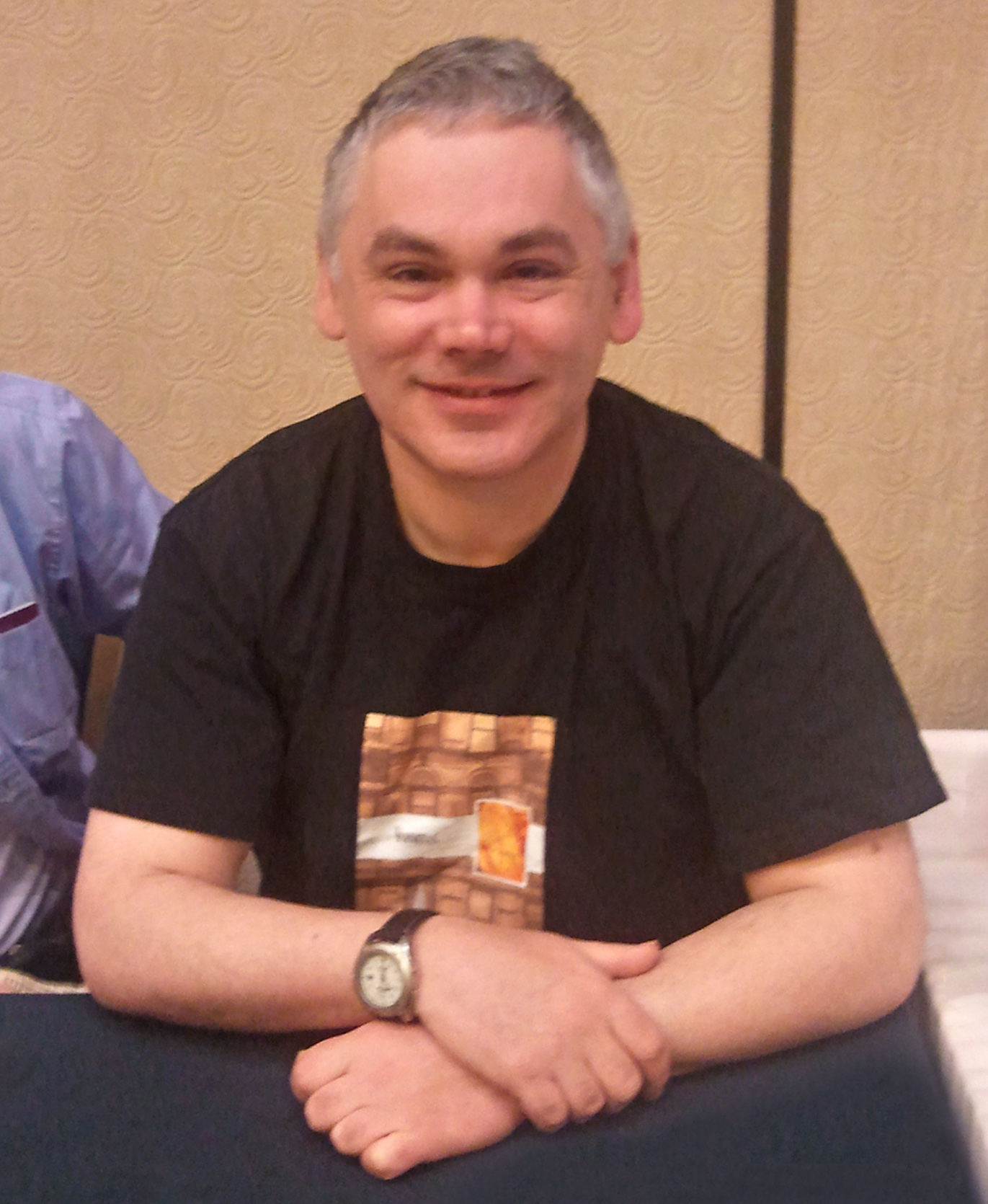 Matthew Waterhouse signing autographs at the 2011 Gallifrey convention in Los Angeles. (Cropped and 'Shopped version of another image, made for more effective use of thumbnail space; see below for changes.)